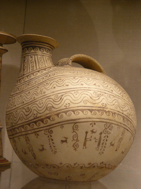 Terracotta askos (flask with a spout and handle over the top) Native Italic Daunian Canosan 330-300 BCE. Photographed at the Metropolitan Museum of Art in New York City, New York.